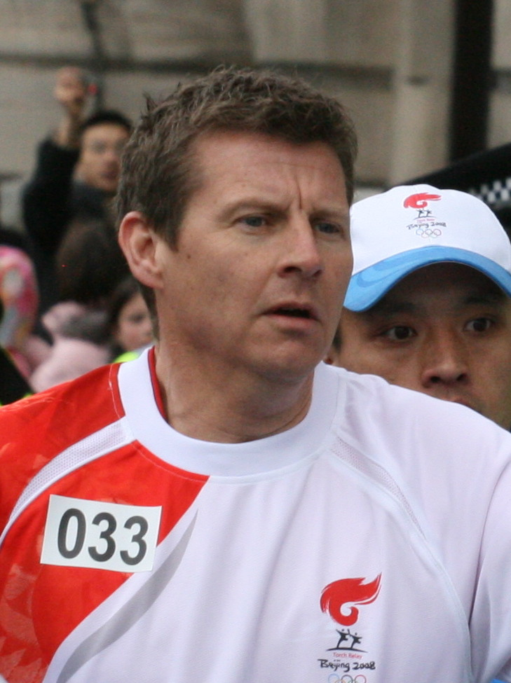 Olympic Torch for the 2008 Summer Olympics passes along Whitehall in London. The torch bearer is Steve Cram.